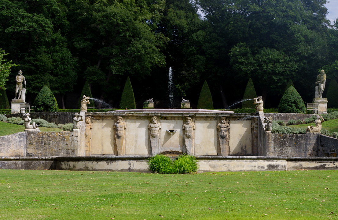 Italian style Fountains and terraces of Albertas gardens, near Aix-en-Provence (France)